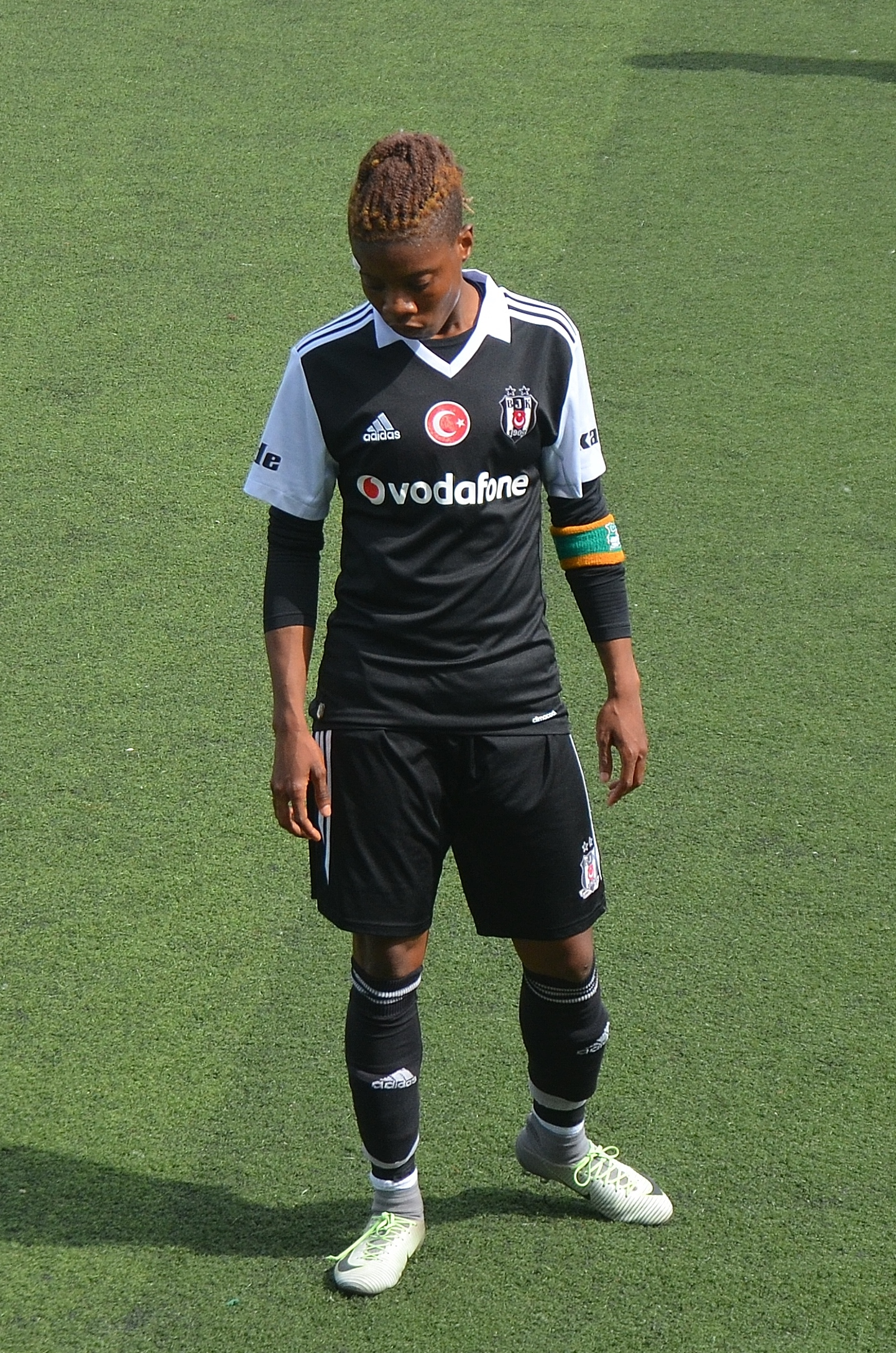 Ines Nrehy playing for Beşiktaş J.K. in the play-offs of the 2016-17 Turkish Women's First League.